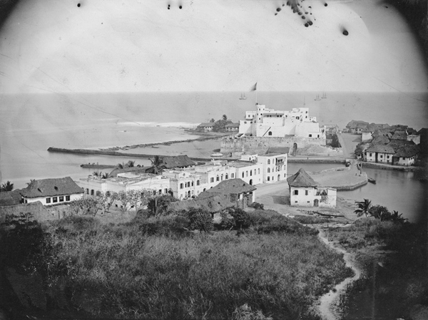 Photograph of Elmina showing a small part of the old town before its destruction in 1874.